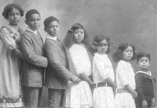 Children of Georges Sylvain, from left to right: Suzanne (1898-1975), Normil (1900-1929), Henry (1901-1991), Madeleine (1905-1970), Jeanne (1906-), Yvonne (1907-1989), Pierre (1910-1991). Paris, September 1912